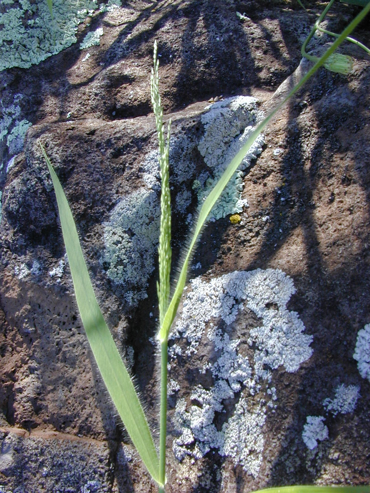 Panicum xerophilum (inflorescens). Location: Maui, NHPS Hibiscus brackenridgei excl Waikapu